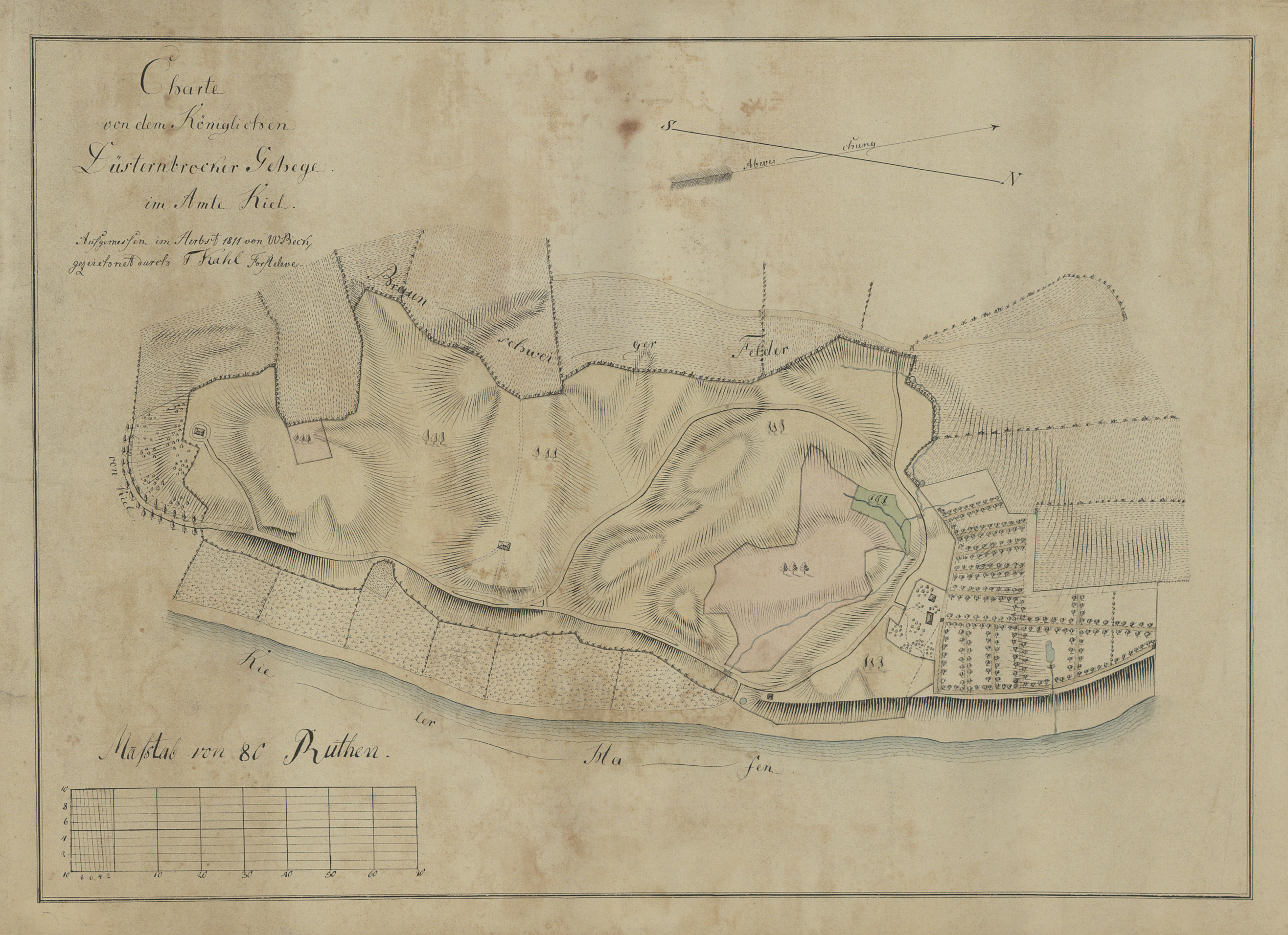 Karte von Duesternbrook (W Beck & F Kahl) 33,6x47,3cm The making of this document was supported by the Community-Budget of Wikimedia Germany.